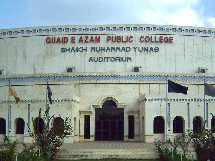 Colllege Auditorium